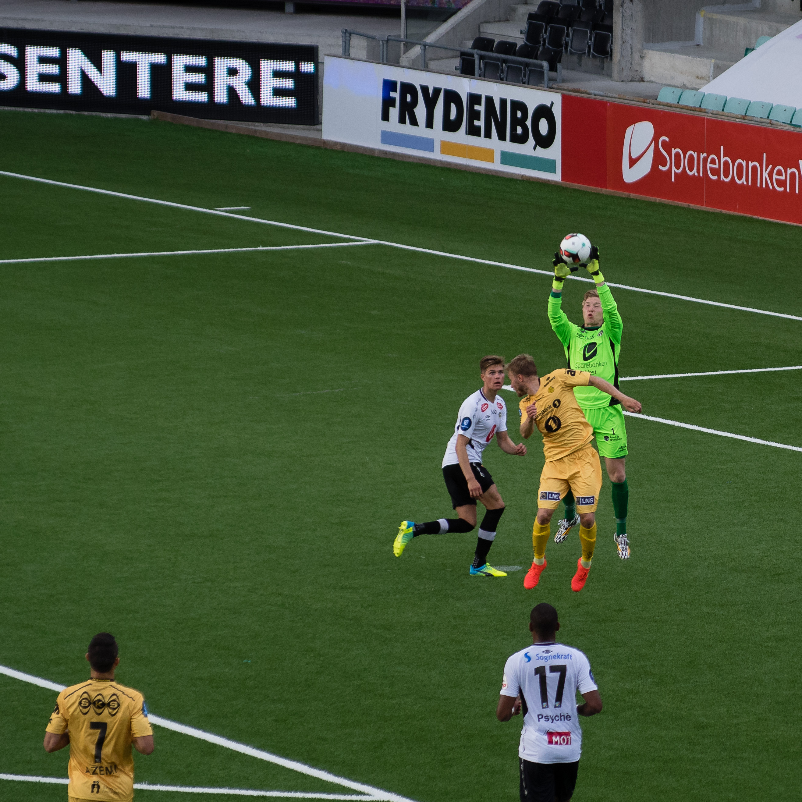 Goalie Mathias Dyngeland catches the ball.